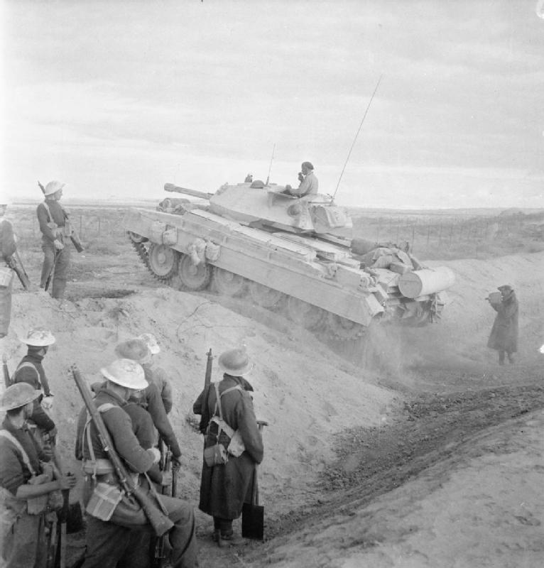 The Campaign in North Africa 1940-1943 The Axis retreat and the Tunisian campaign 1942 - 1943: A British tank crosses a wide ditch outside Mersa Matruh just before the fall of the town.